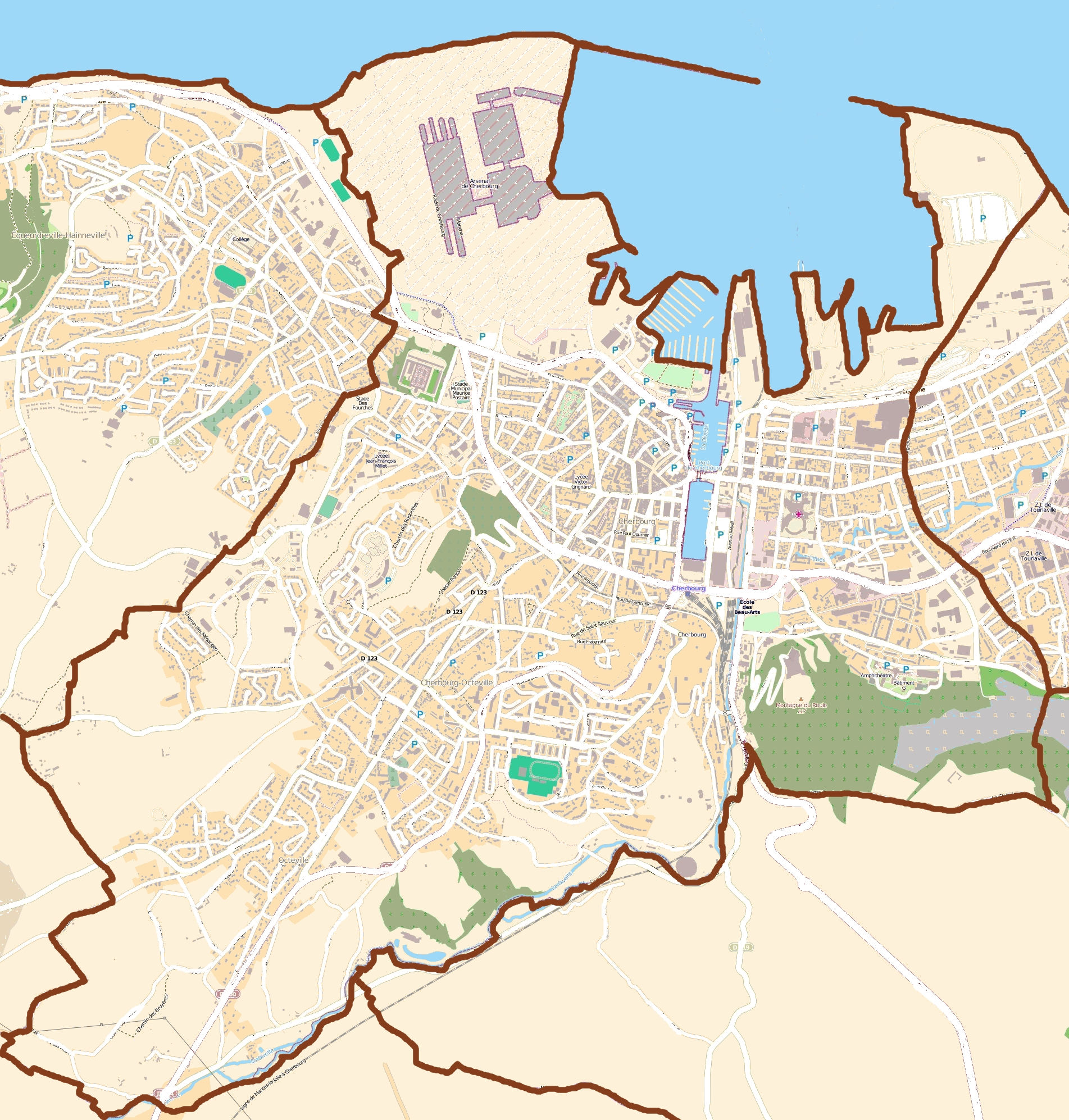 Map of Cherbourg-Octeville, France